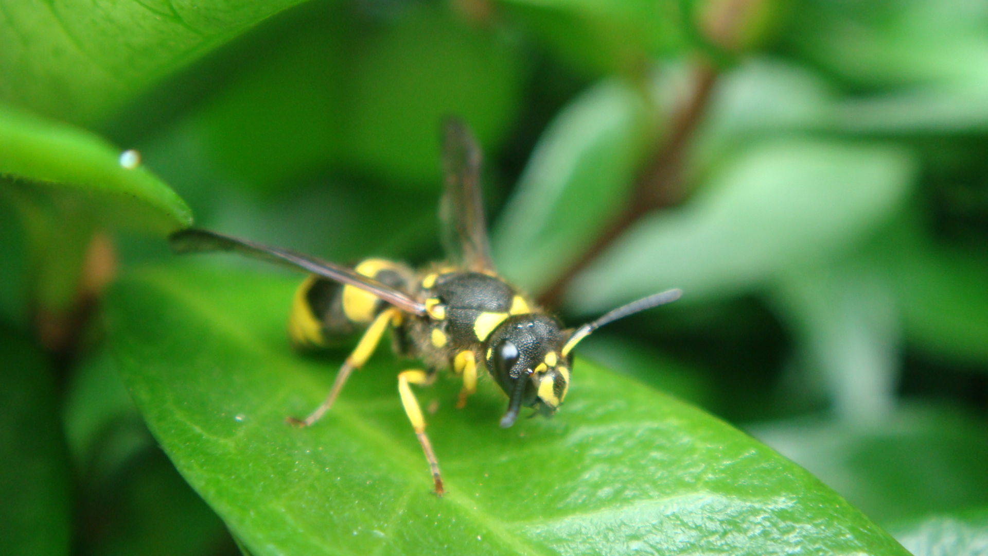 A European tube wasp (Ancistrocerus gazella) on a leaf. Photo taken at the University of Auckland's Tamaki Campus on 10 March 2009.